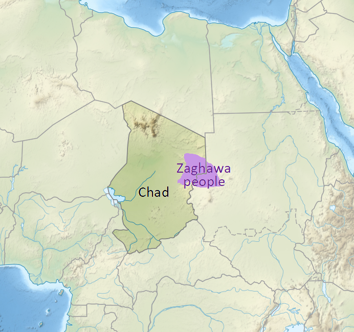 Repartition map of Zaghawa people in Chad Africa